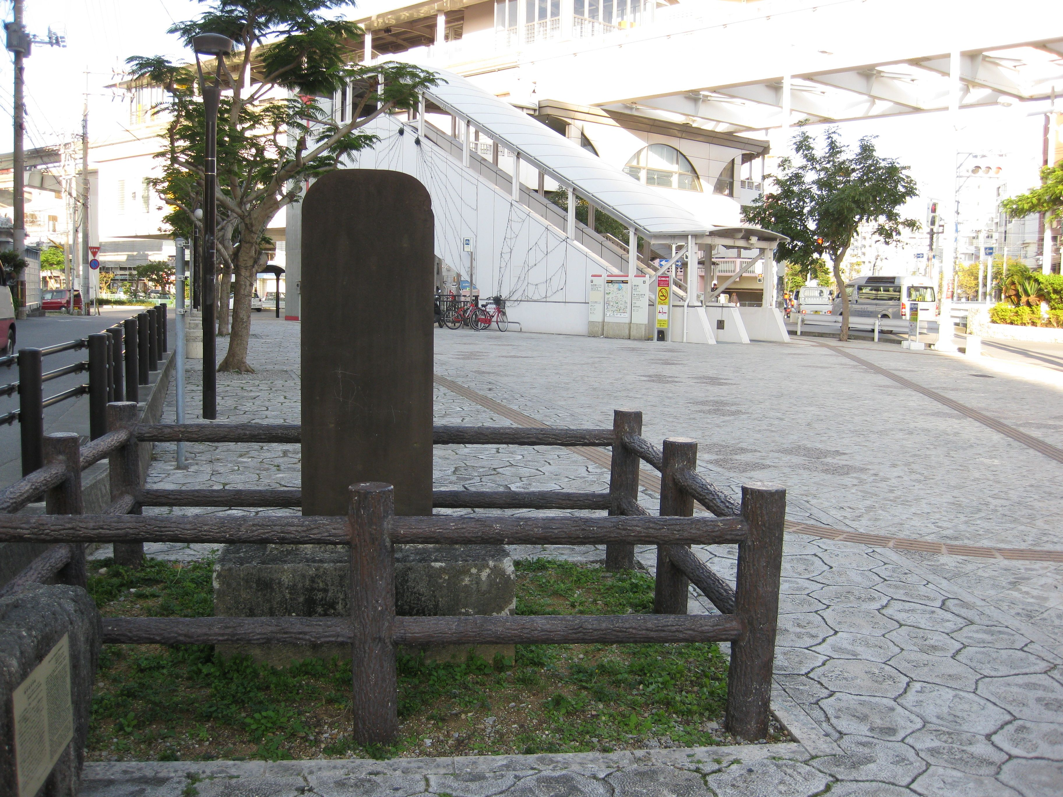 The Shinsyūmiebashihi Stele in Okinawa, Japan